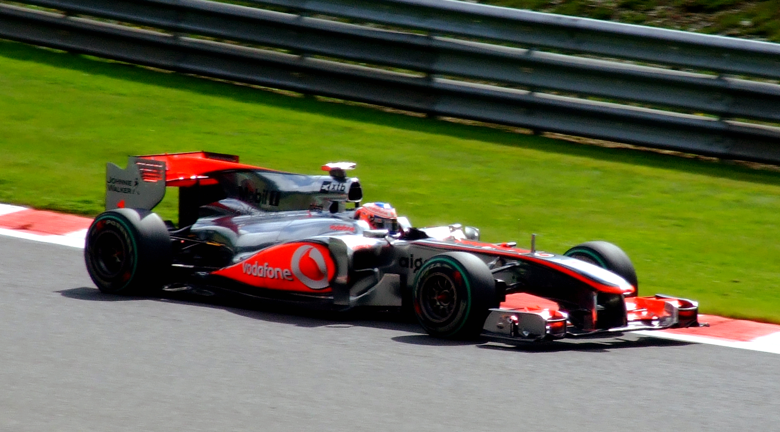 Jenson Button, McLaren MP4-25, Pouhon, Spa-Francorchamps, Second Practice, 2010 Belgian Grand Prix.